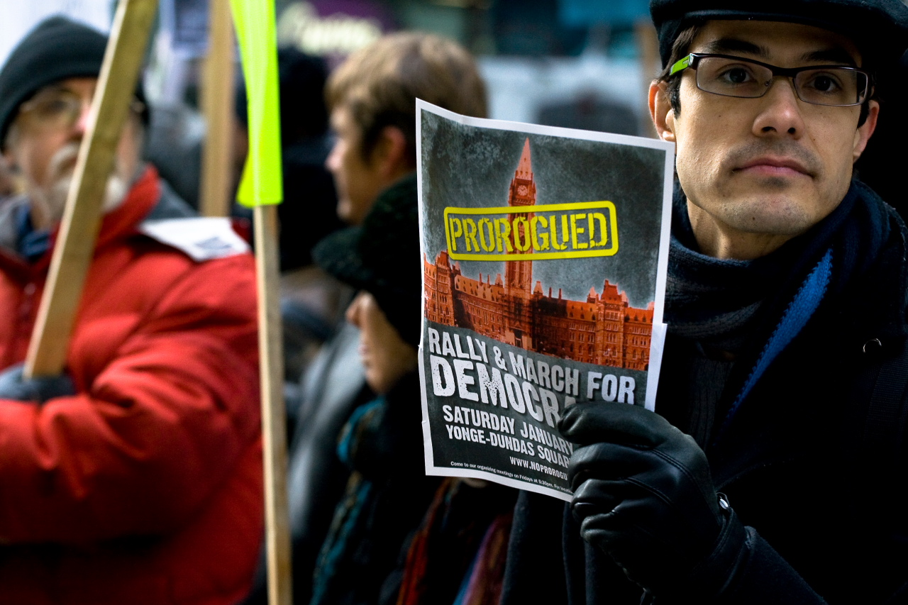 A group of protesters arrived in downtown Toronto to voice their discontent with Stephen Harper and his prorogation of parliament. Harper was in town to attend a round table meeting at the C.D. Howe Institute.